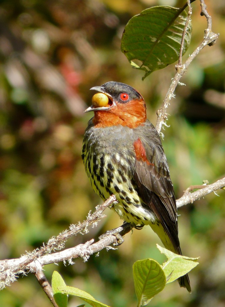 La Cienfuentes-trout farm, Jardín, Antioquia, Colombia. Feeding a chick. July 9th - 2009.